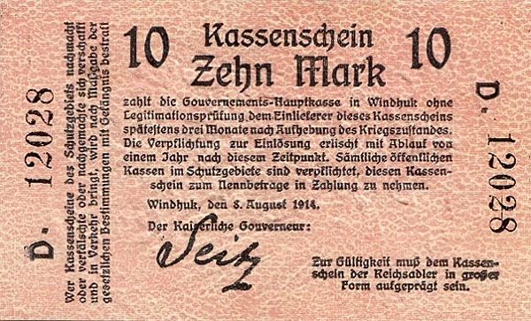 A banknote issued to circulate in German South-West Africa.